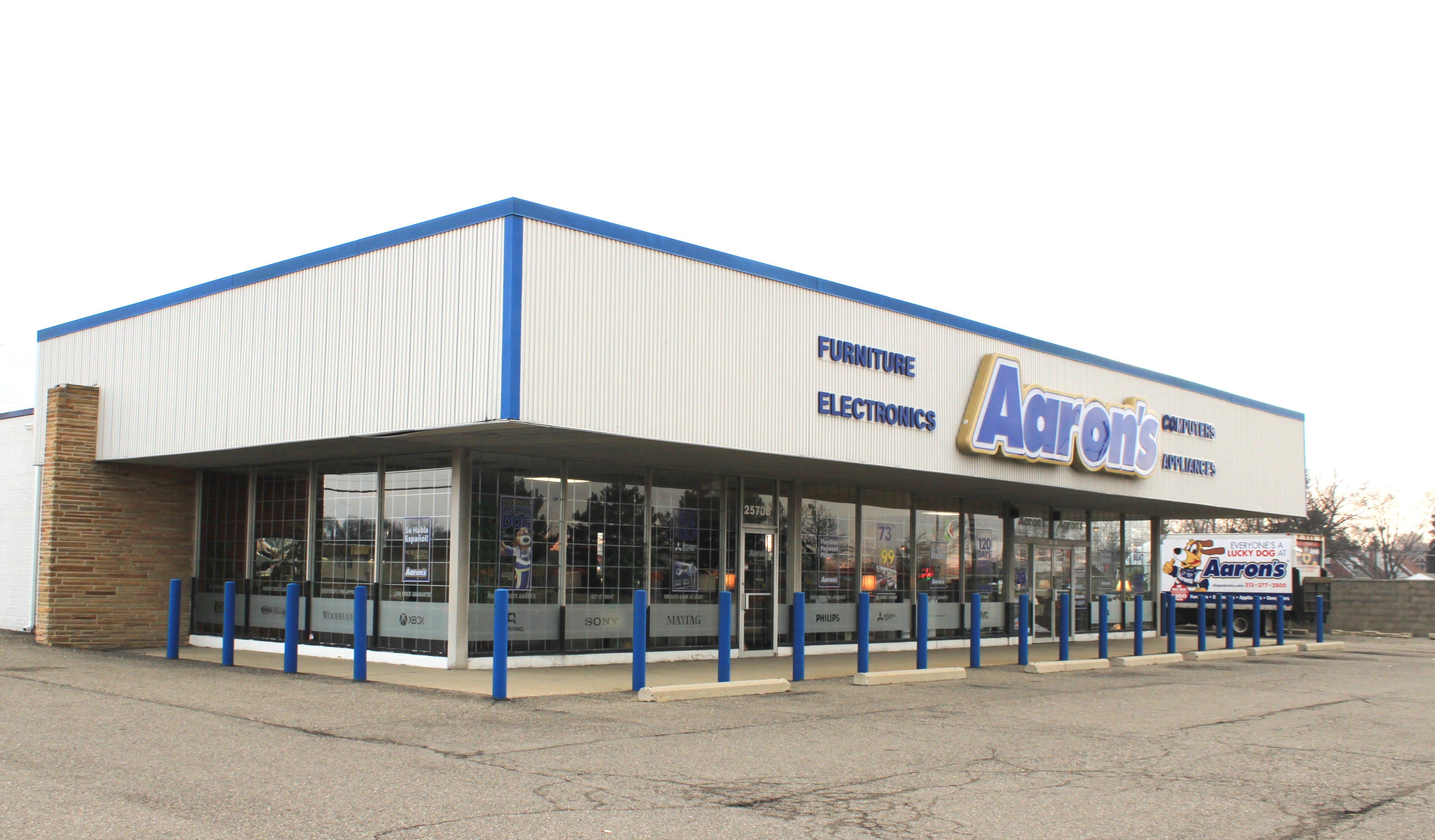 Aaron's store, 25708 Michigan Avenue, Dearborn Heights, Michigan.